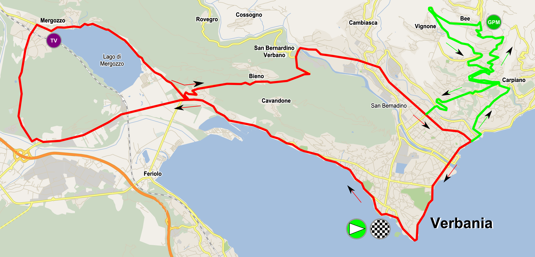 Map of the stage 9 of the Giro rosa 2016.